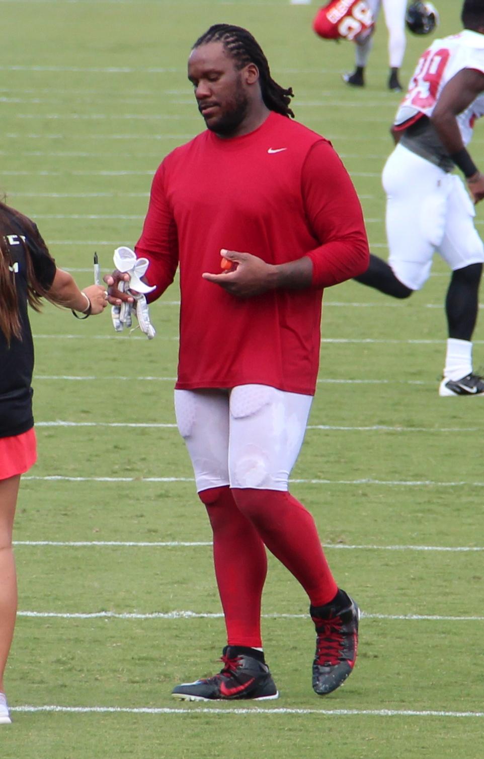 Jonathan Babineaux at Falcons training camp, 2016